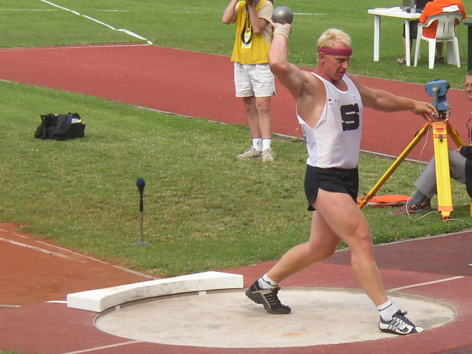 Remigius Machura senior (Czech athlete - shot put) aged 45 (!) at 2005 Championships of the Czech Republic in athletics, Sletiště Stadium in Kladno, Czech Republic.